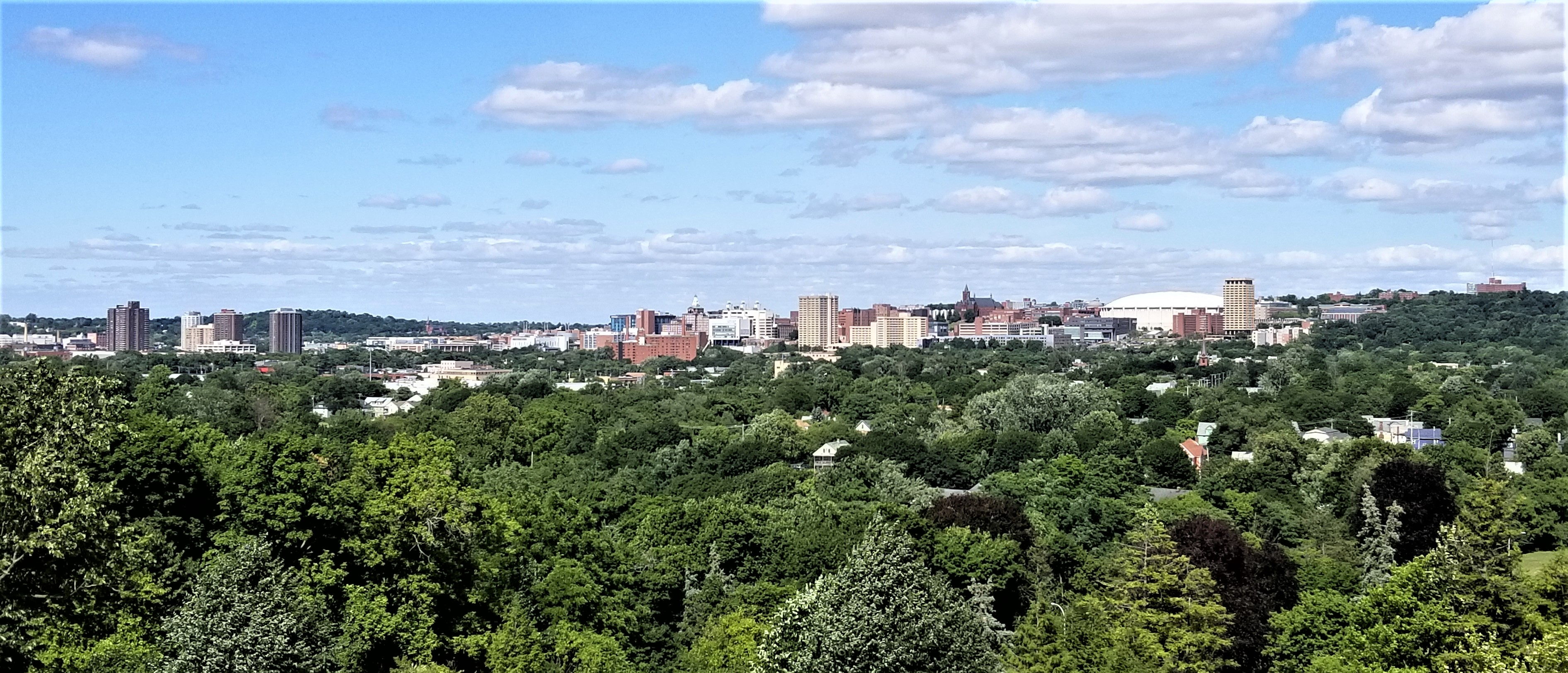 University Hill, Syracuse (wide angle). (Expanded version of File:Suhilldome3.jpg, photo taken from summit @ Upper Onondaga Park, Syracuse.)